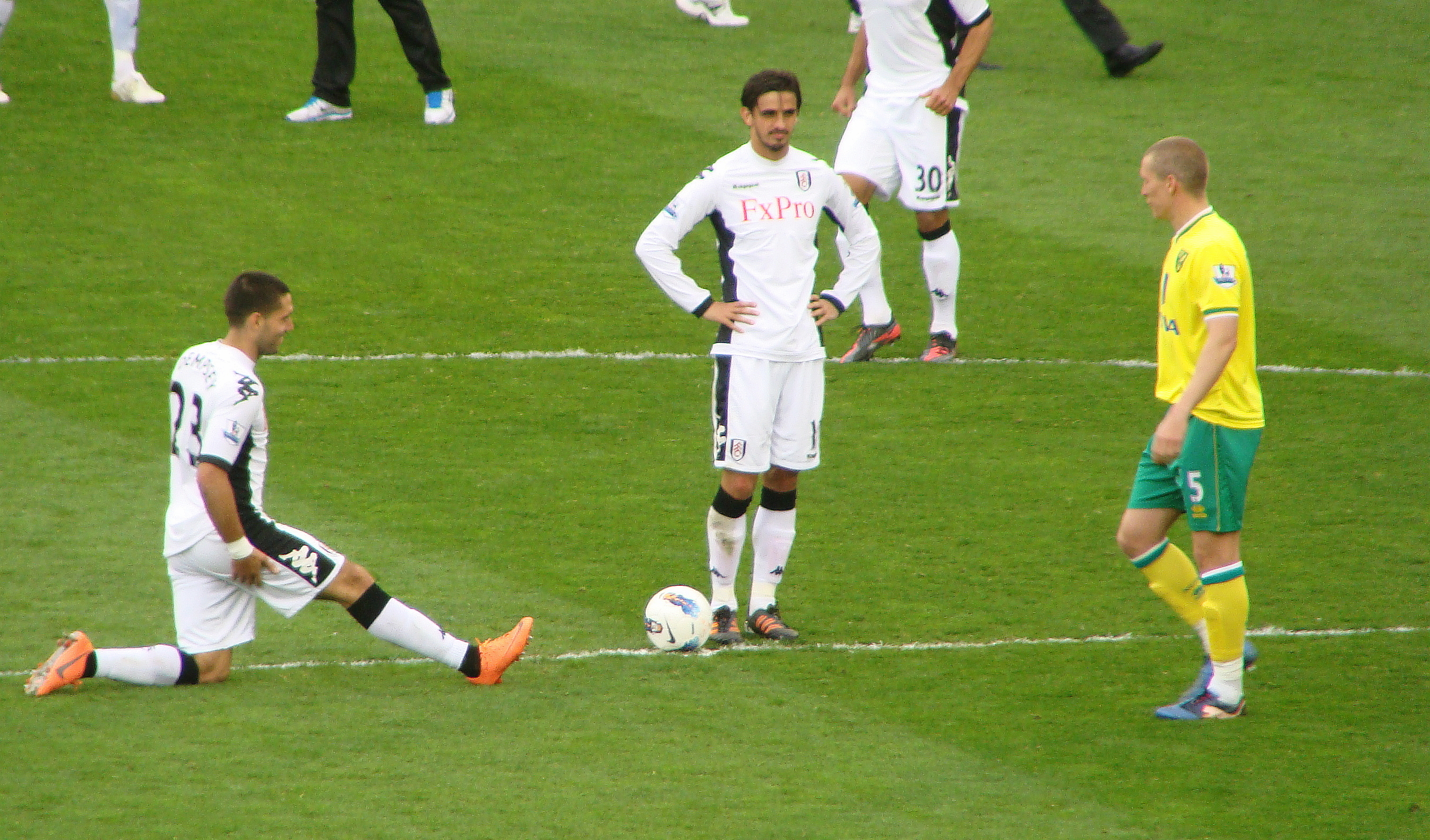 Clint Dempsey (left) stretches while Bryan Ruiz (center) stands at the center circle. Steve Morison to the right.